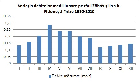 Change in average monthly river flows Zăbrăuţi to PH Fitionesti between 1990-2010